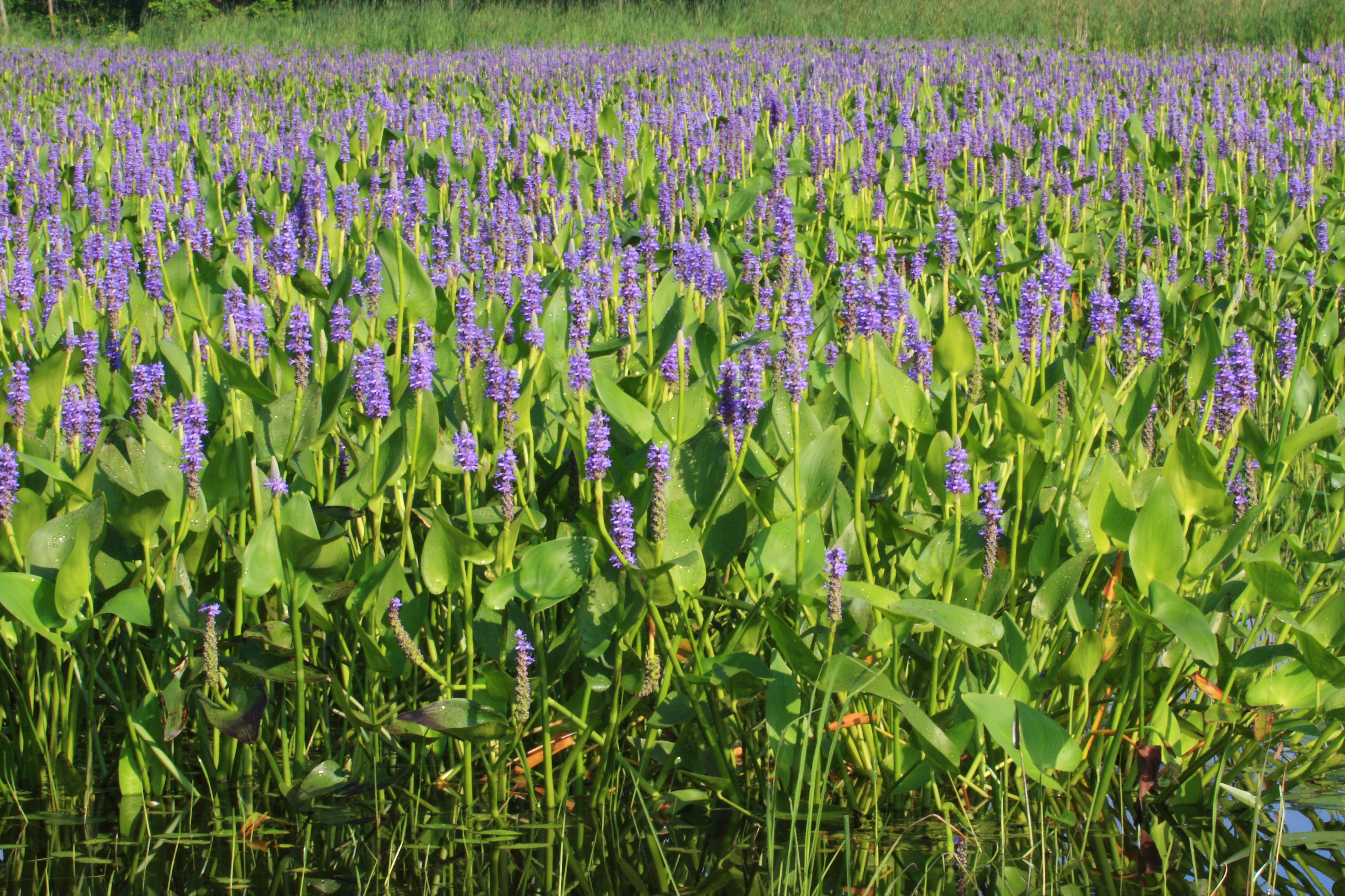 Pontederia cordata, Plaisance National Park, Quebec, Canada